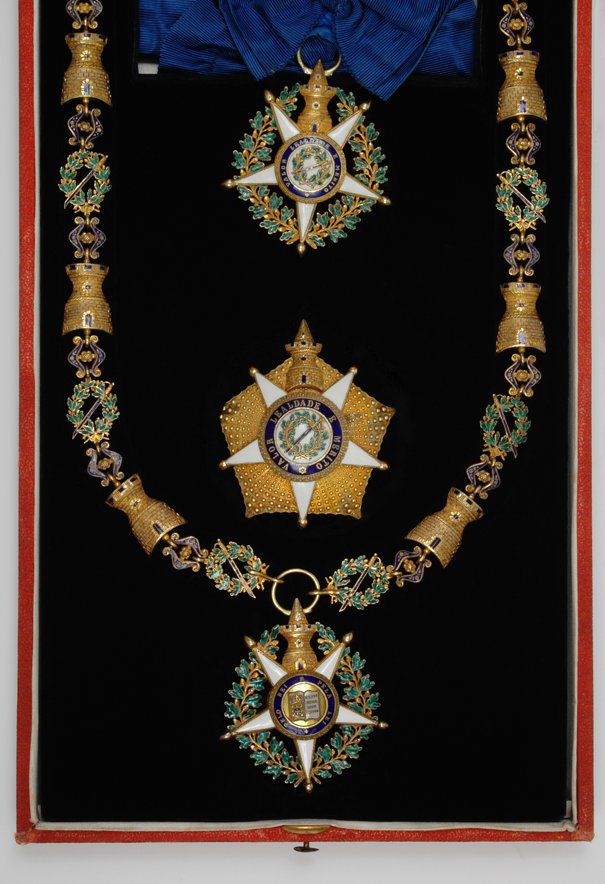 Order of the Tower and Sword